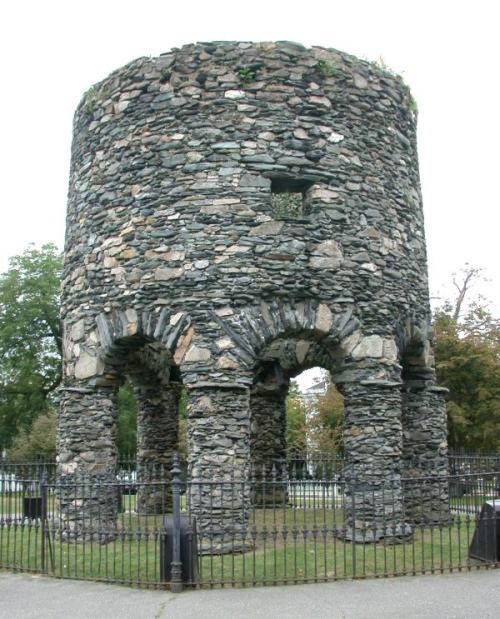 Newport Tower (Rhode Island) © 2004 Matthew Trump